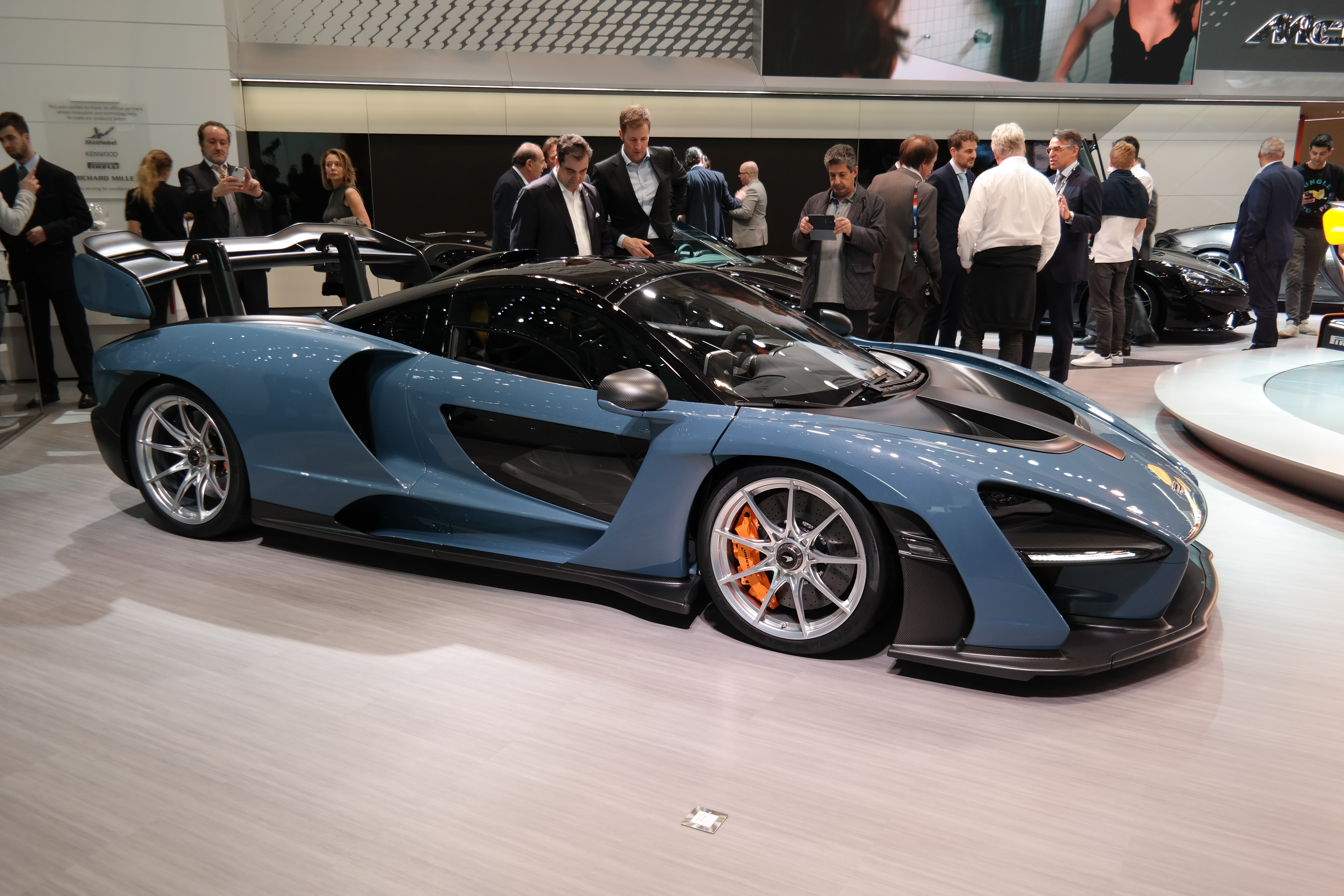 Geneva Motor Show 2018 (photo taken on the first press day)